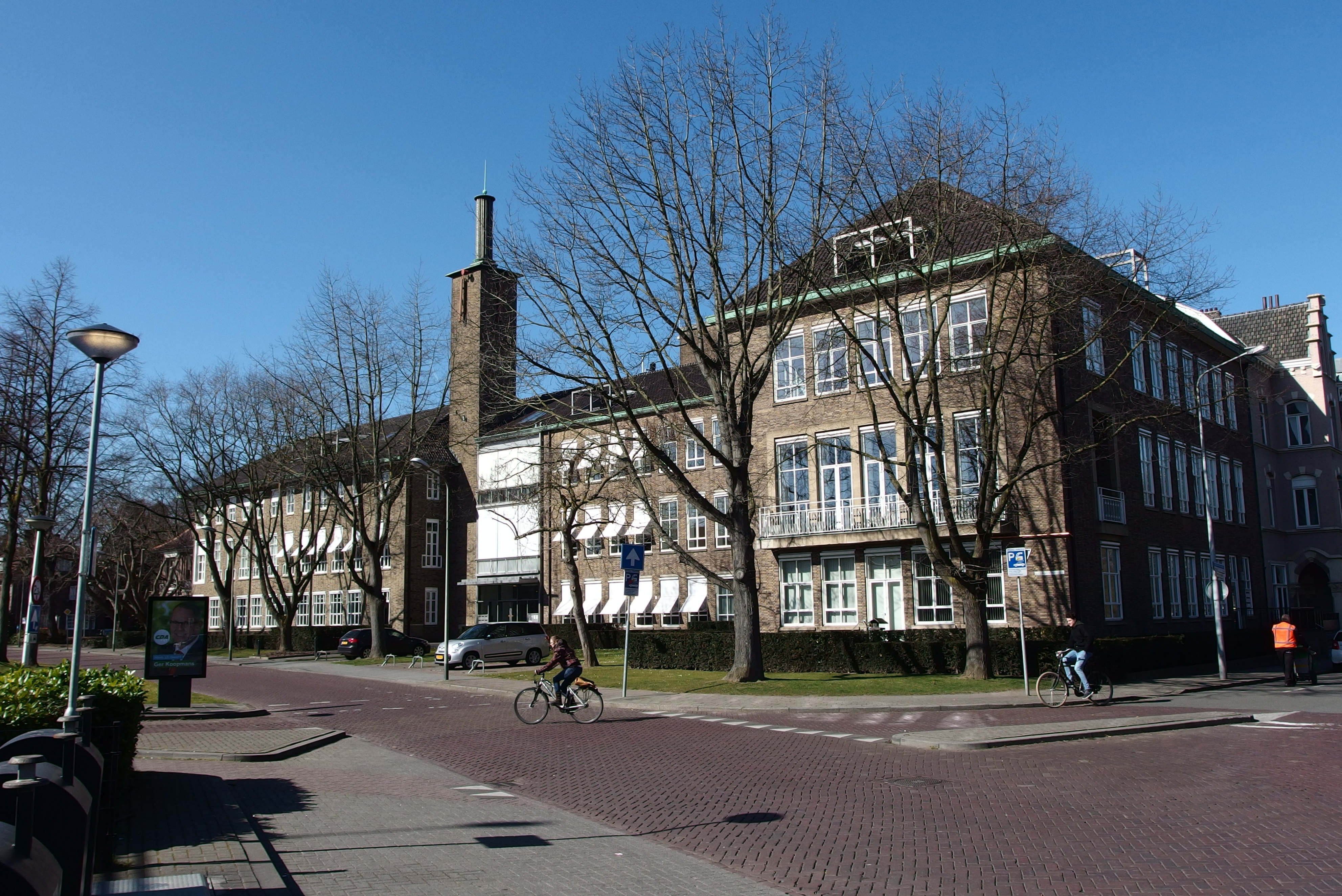 2015-03-12 in Maastricht; PLEM building seen from Kennedybrug.